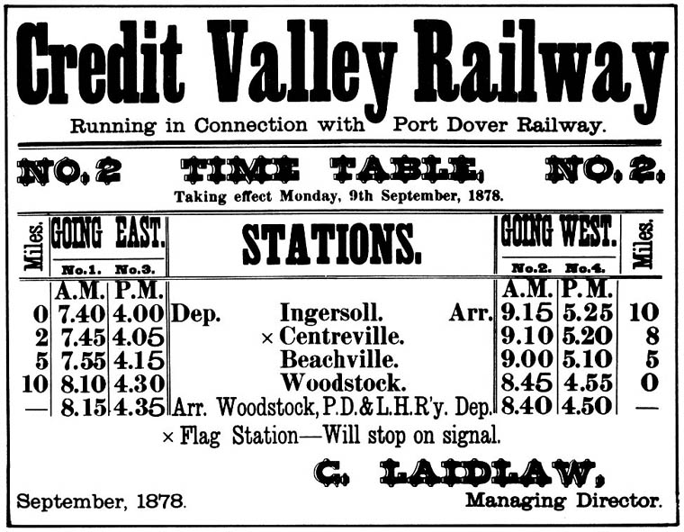 Credit Valley Railway timetable 1878